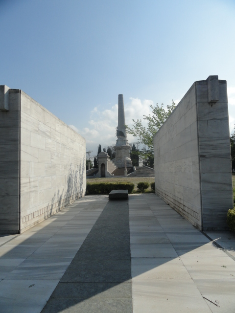 Grave of Midhat Pasha (1822-1884) in Istanbul Abide-i Hurriyet Cemetry